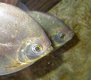 Myleus rubripinnis (Syn. Myloplus rubripinnis) is a medium to large herbivorous fish of the family Characidae that is found in the Amazon River. It is peaceful and schools often, and can grow to a length of 11 inches.